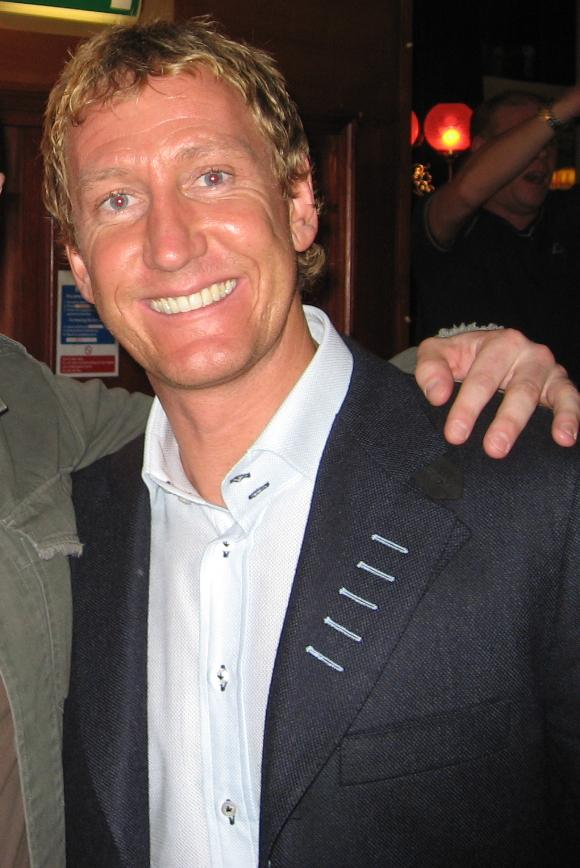 English football (soccer) footballer Ray Parlour